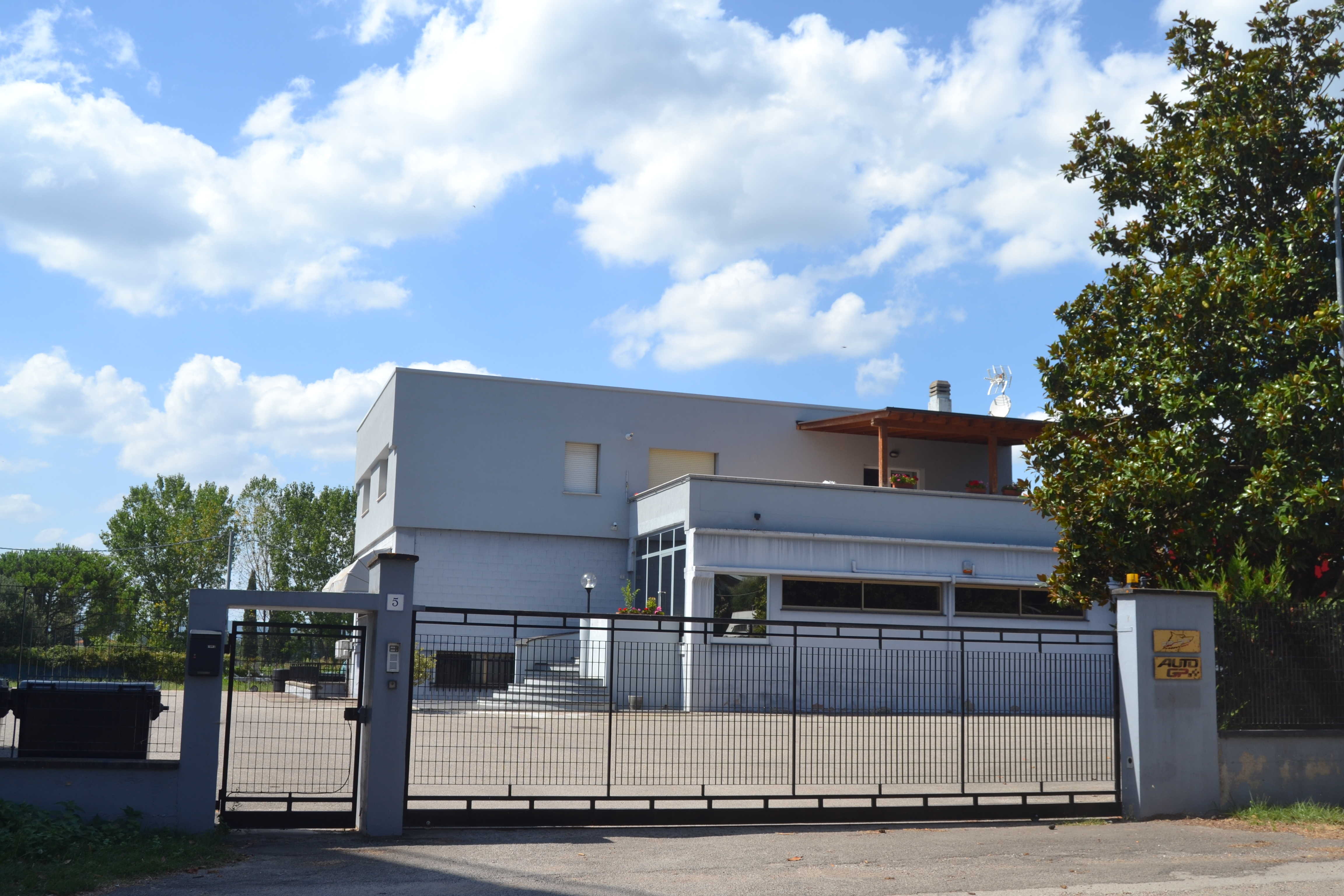 Coloni Motorsport: Headquarter in Passignano-sul-Trasimeno, Via Industriale 5.